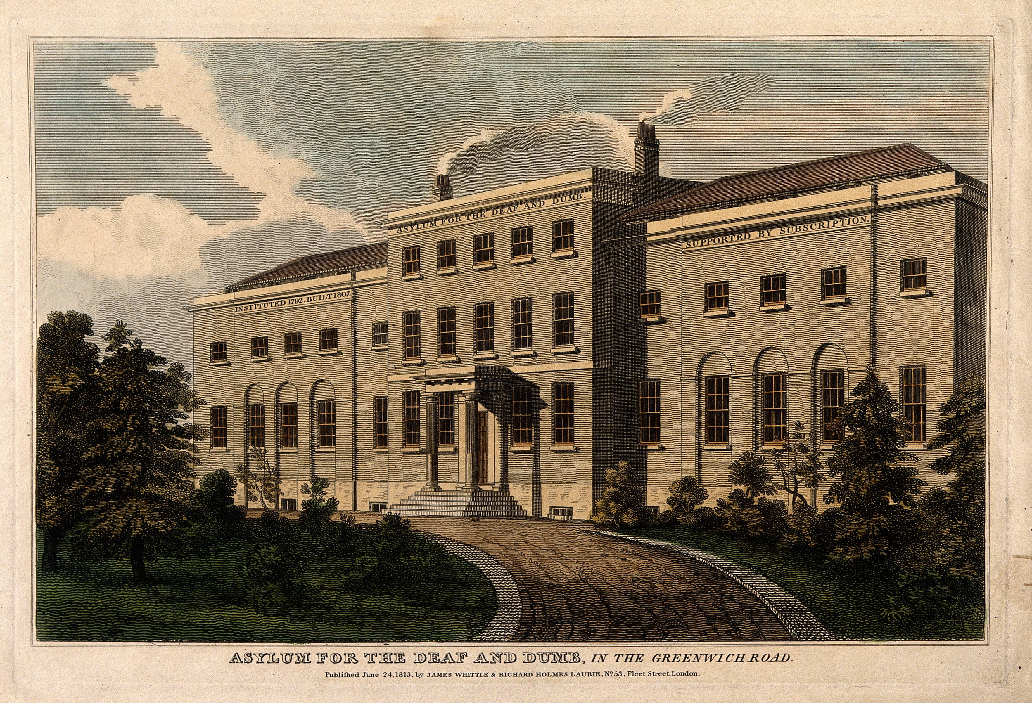 Asylum for the deaf and dumb, Camberwell. Coloured etching, 1813. Iconographic Collections Keywords: Asylum for the deaf and dumb (Camberwell); Thomas Swithin